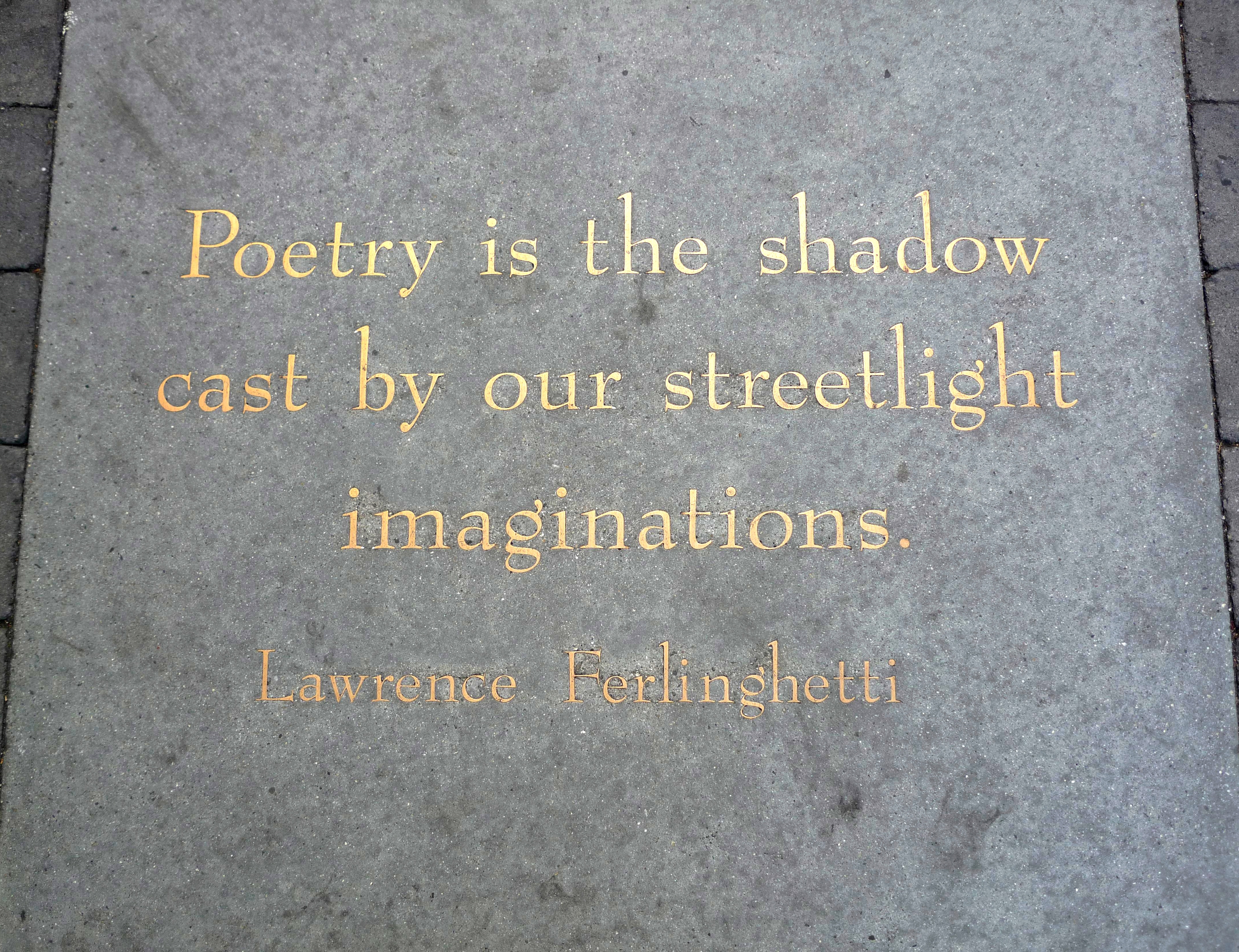 A plaque with Lawrence Ferlinghetti's quote outside City Lights Bookstore, San Francisco